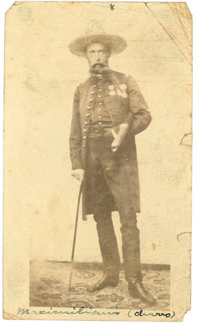 Emperor Maximiliano I of Mexico (1832-1867) wearing a typical Mexican hat (a sombrero).